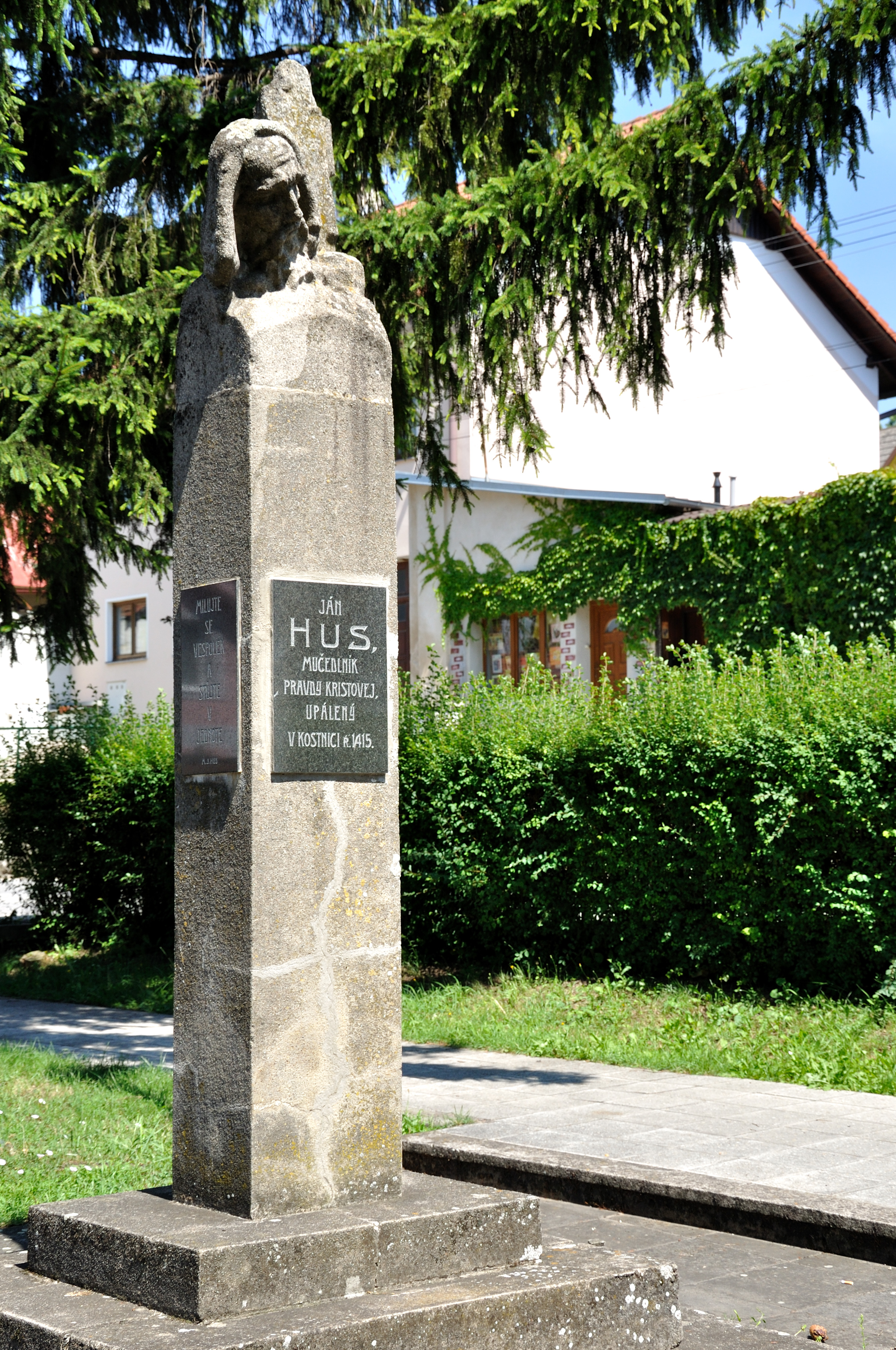 Brezová pod Bradlom - Ján Hus memorial